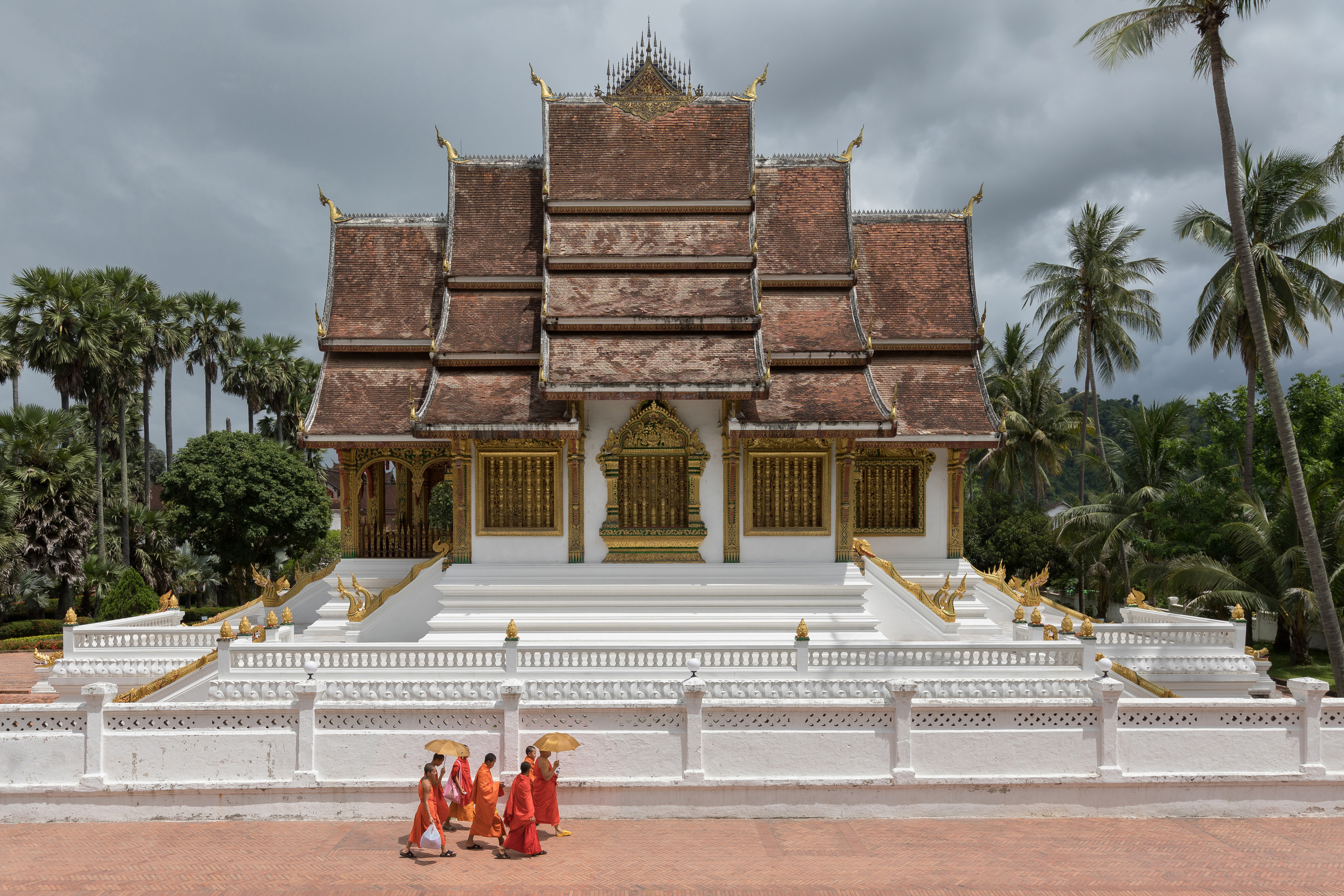 Group of seven Buddhist monks walking with umbrellas in front of the temple Haw Pha Bang, a sunny day with gray clouds in Luang Prabang, Laos